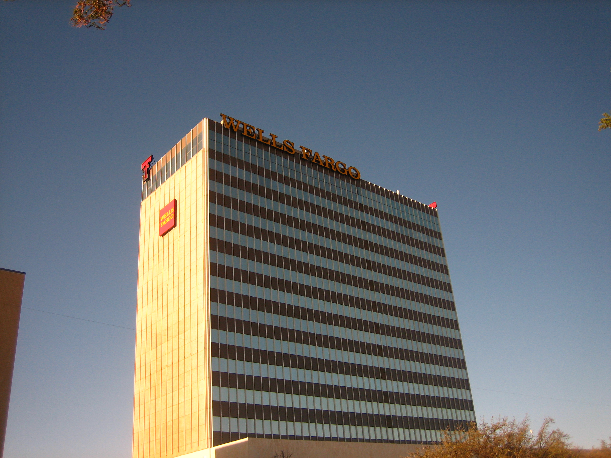 I took photo on April 5, 2009.Billy Hathorn (talk) 14:17, 7 April 2009 (UTC)